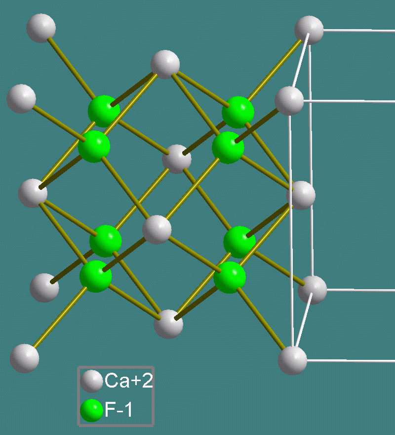 Crystal structure of fluorite